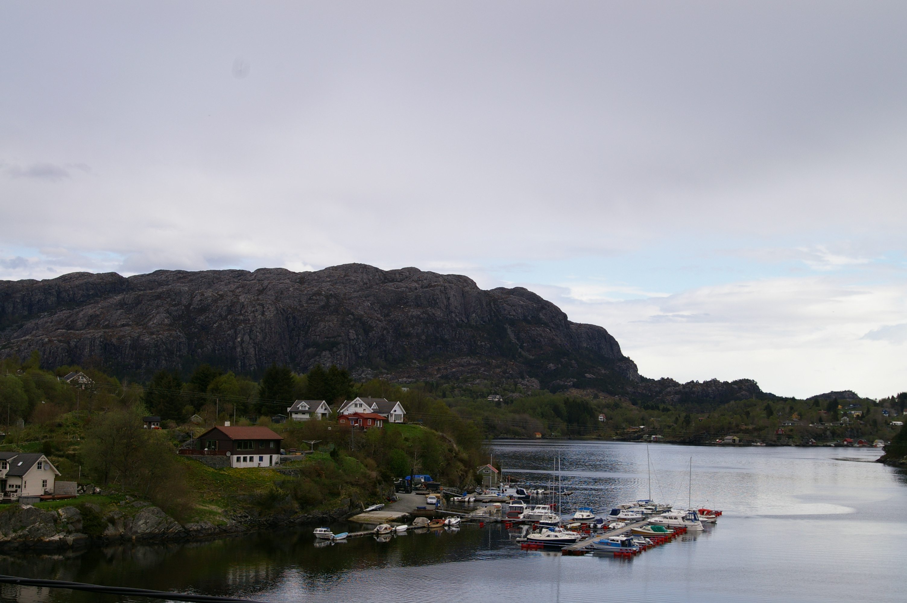 Rosslandspollen with Eldsfjellet behind at Meland, Hordaland, Norway.